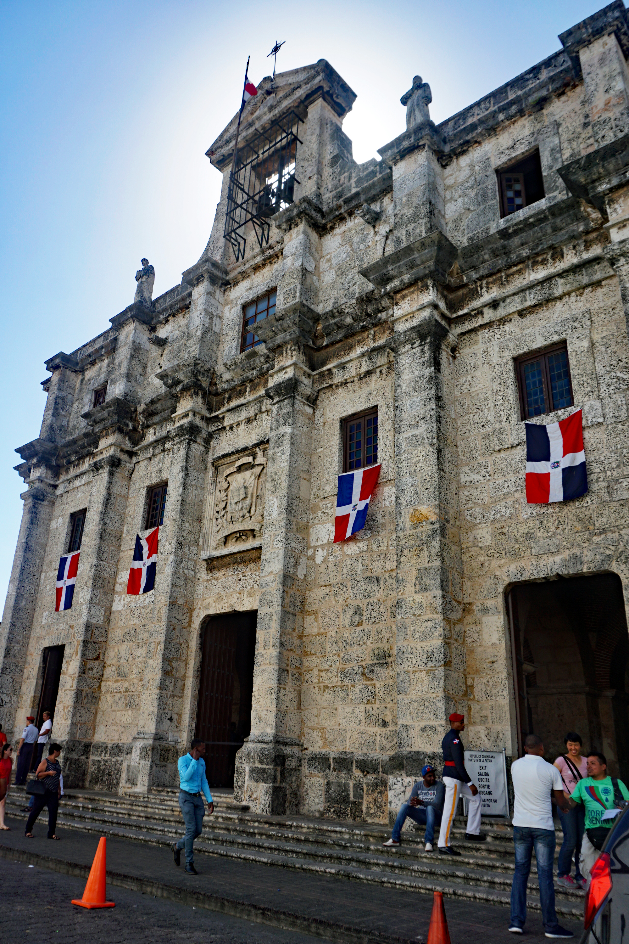 Panteón Nacional, Ciudad Colonial Santo Domingo, Dominican Republic.